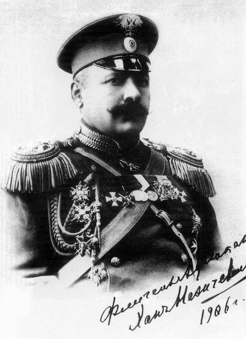 Adjutant General Huseyn Khan Nakhichevanski, 1863 - 1918